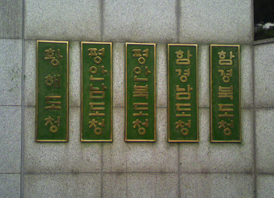 This is the plates of the Office of Five Provinces of the North (Hangul: 이북 5도청 or 이북오도청; Hanja: 以北五道廳; RR: Ibuk-odocheong; M-R: Ibuk-odoch'ŏng), Seoul, the Republic of Korea (ROK, South Korea) taken by User:Yes0song. "Provincial Office of Hwanghae," "Provincial Office of South Pyeongan," "Provincial Office of North Pyeongan," "Provincial Office of South Hamgyeong," "Provincial Office of North Hamgyeong" are written on each plates (from left to right). Both the ROK and the Democratic People's Republic of Korea (DPRK, North Korea) are formally denying each other, so the ROK is considering that the territory controlled by the DPRK is the old administrative districts when Korea became independent from the Japanese Empire. According to it, the territory of the DPRK is divided into the provinces of North and South Pyeongan (M-R: P'yŏngan), North and South Hamgyeong (M-R: Hamgyŏng) and Hwanghae, and some part of the provinces of Gyeonggi (M-R: Kyŏnggi) and Gangwon (M-R: Kangwŏn, modified M-R: Kangwon). See Administrative divisions of North Korea, Administrative divisions of South Korea, Eight Provinces (Korea). Ibuk-odocheong is the formal and temporary office of five provinces in the North claimed by the South government.